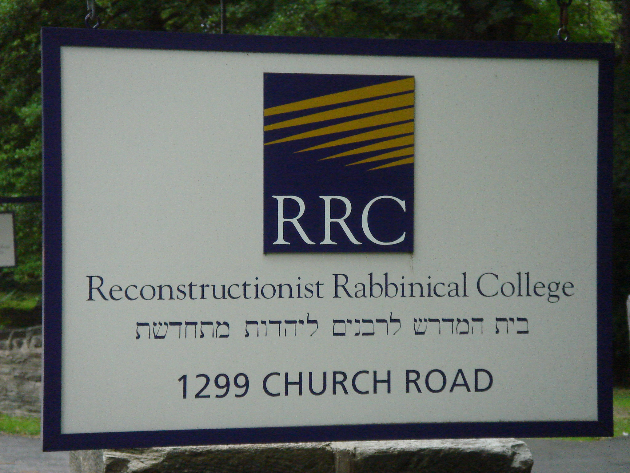 Sign at Reconstructionist Rabbinical College in Wyncote PA USA